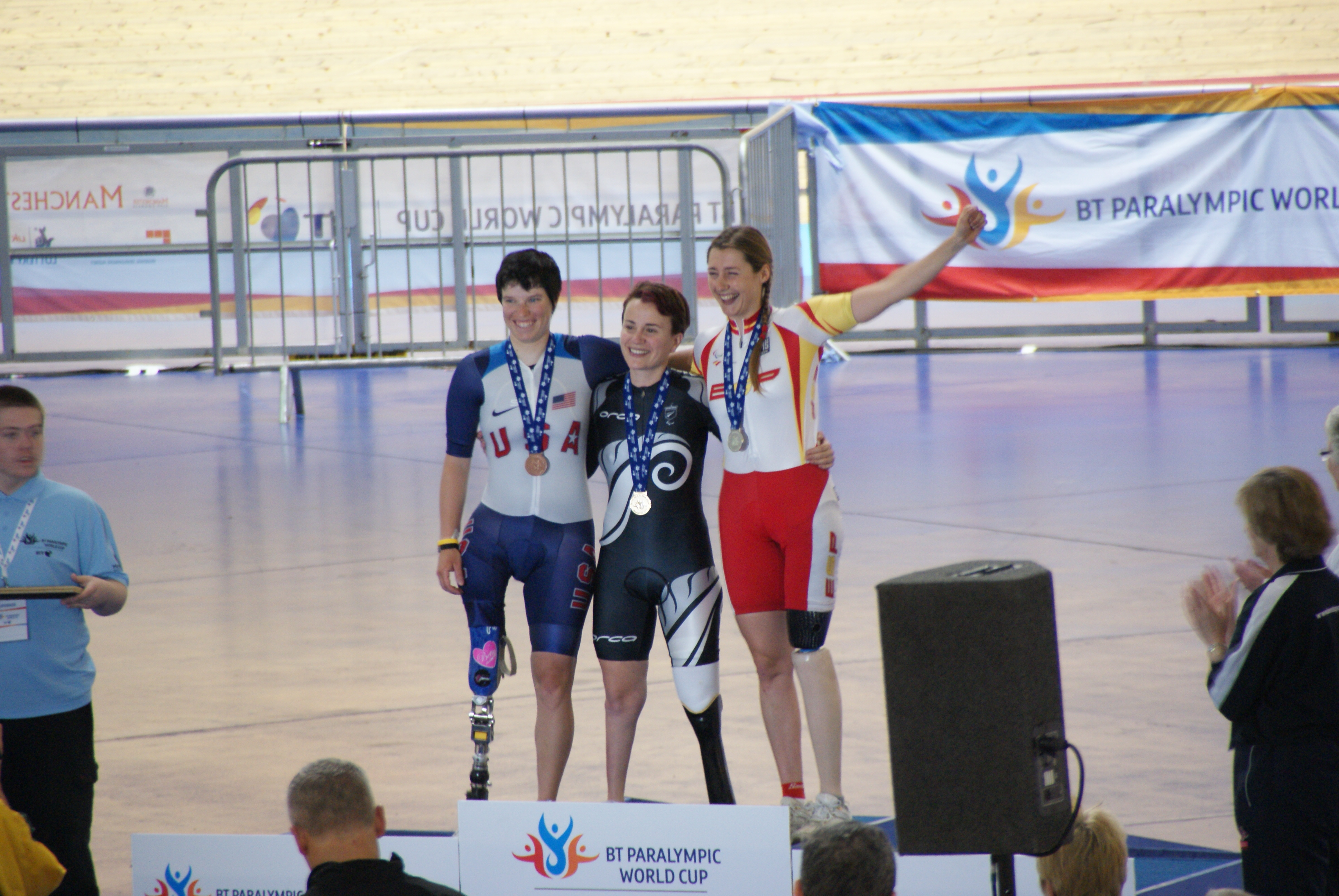 BT Paralympic World Cup 2009: Cycling at the velodrome, Medal winners of 3km pursuit (LC3/LC4/CP3) Paula Tesoriero, Raquel Acinas, Allison Jones.